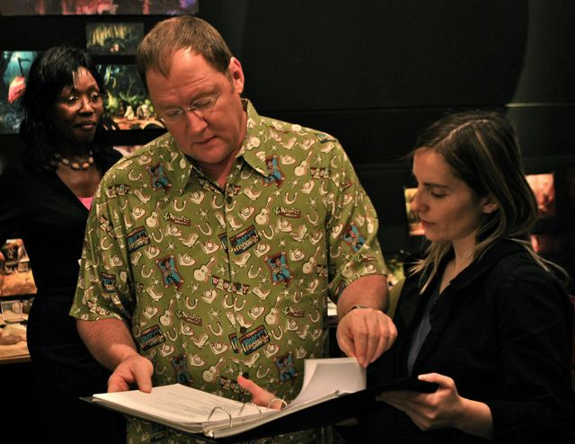 John Lasseter, Chief Creative Officer of Pixar and Academy Award winning director of, Toy Story, reviews the 550 films on the National Film Registry with These Amazing Shadows co-producer, Barbara Grandvoinet.